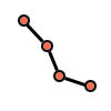 chain network diagram